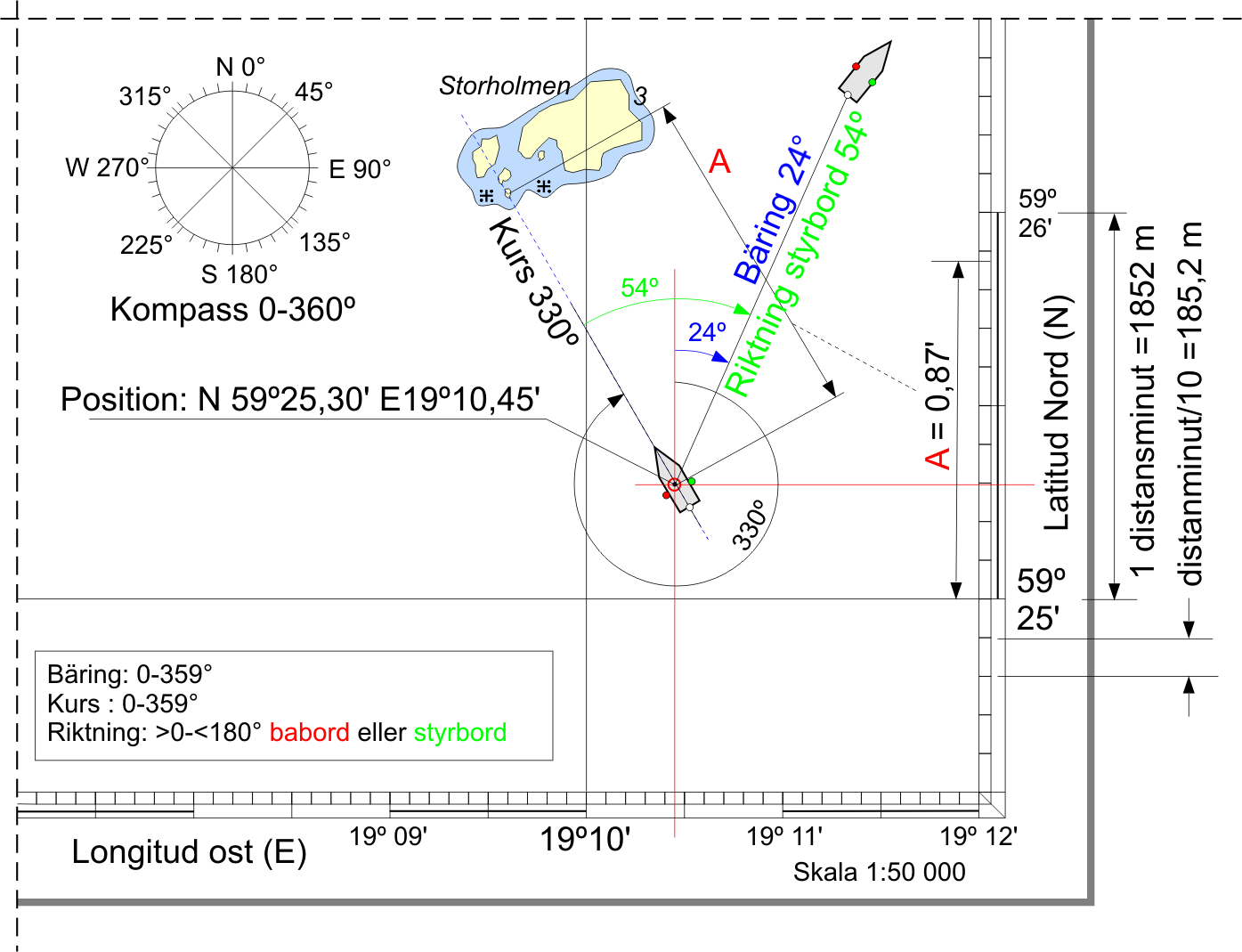 Definition standard for navigation angles and nautical chart scales.